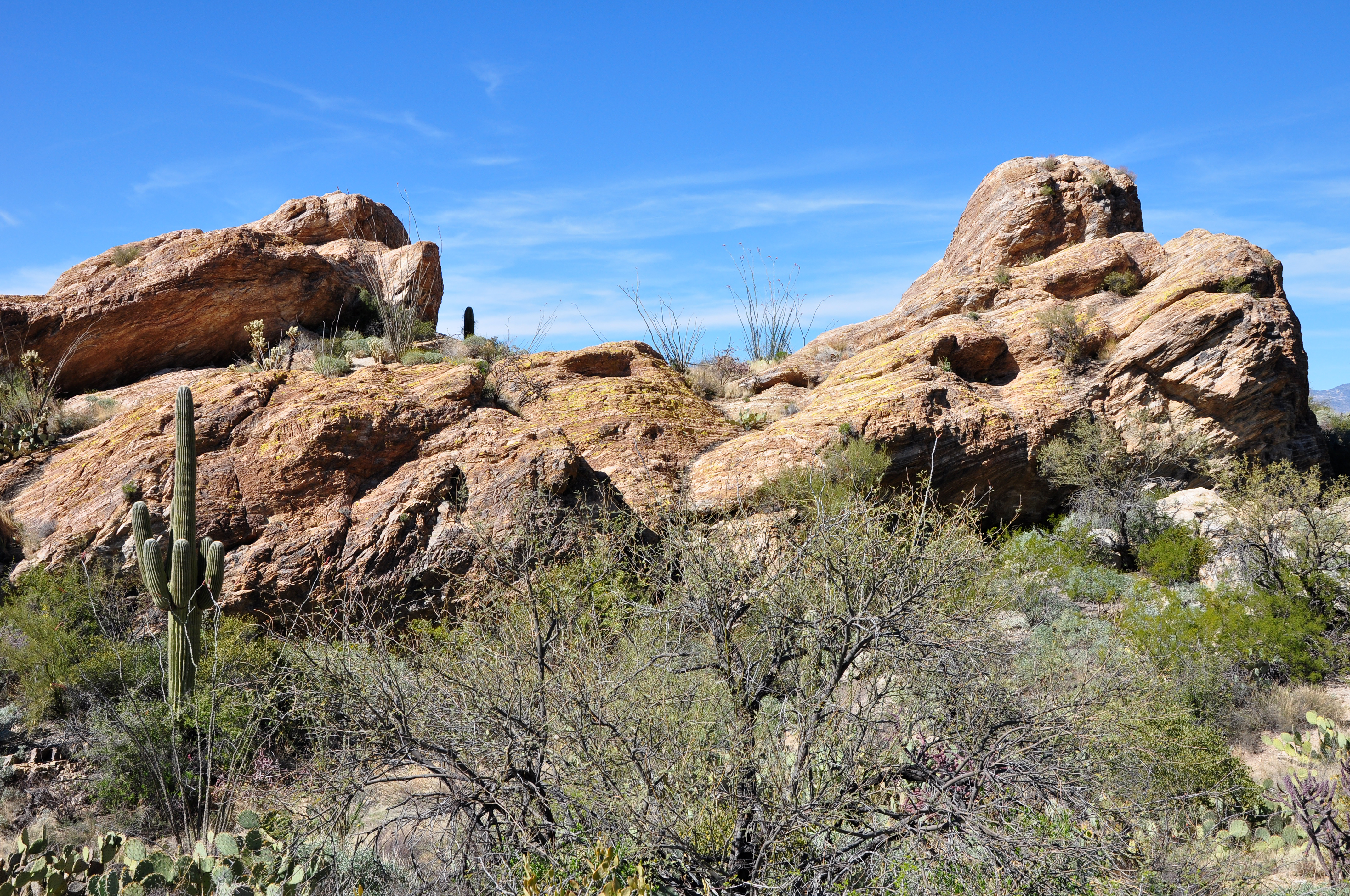 Javelina Rocks in the Rincon Mountain District of Saguaro National Park in Arizona, United States.